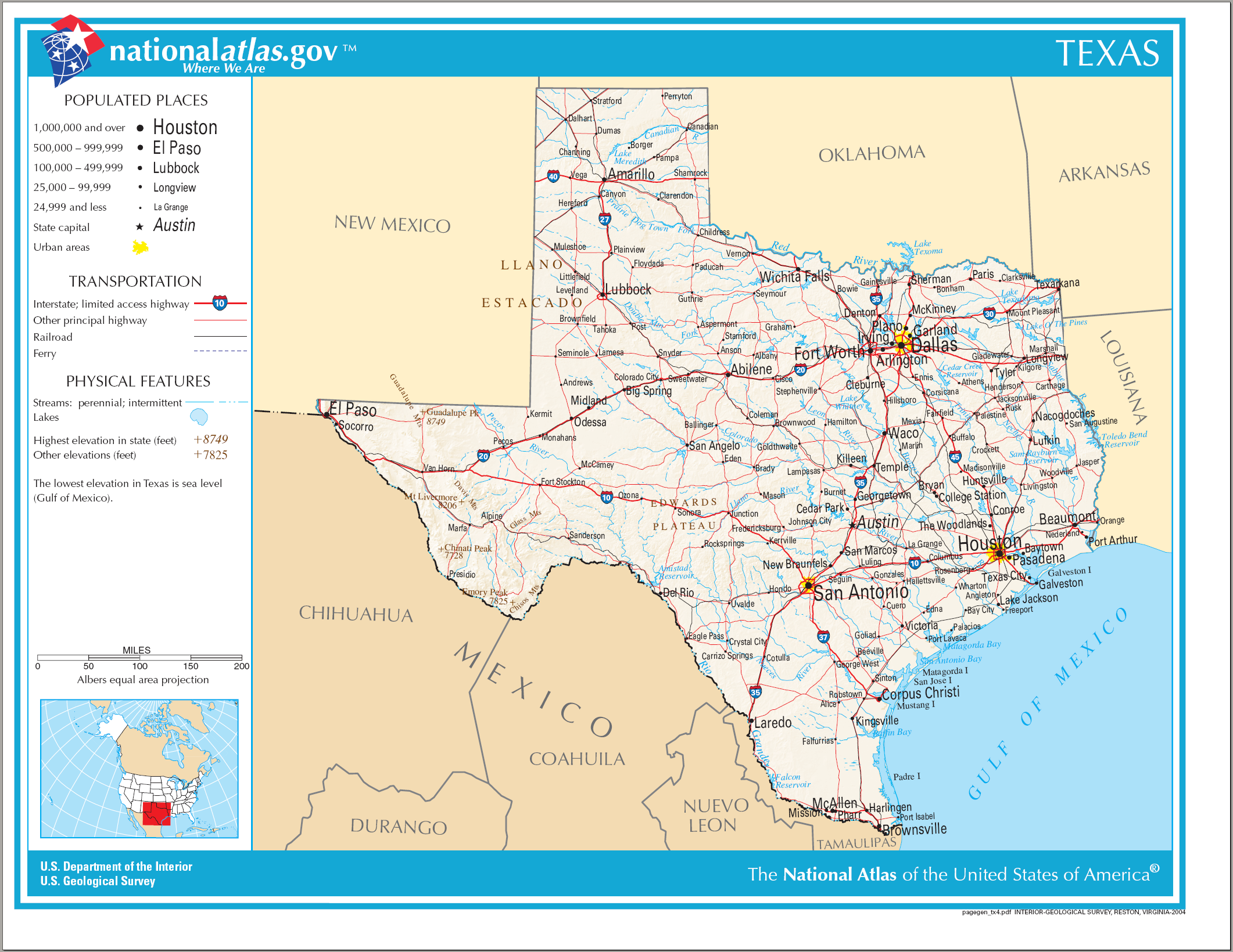 Map of Texas.